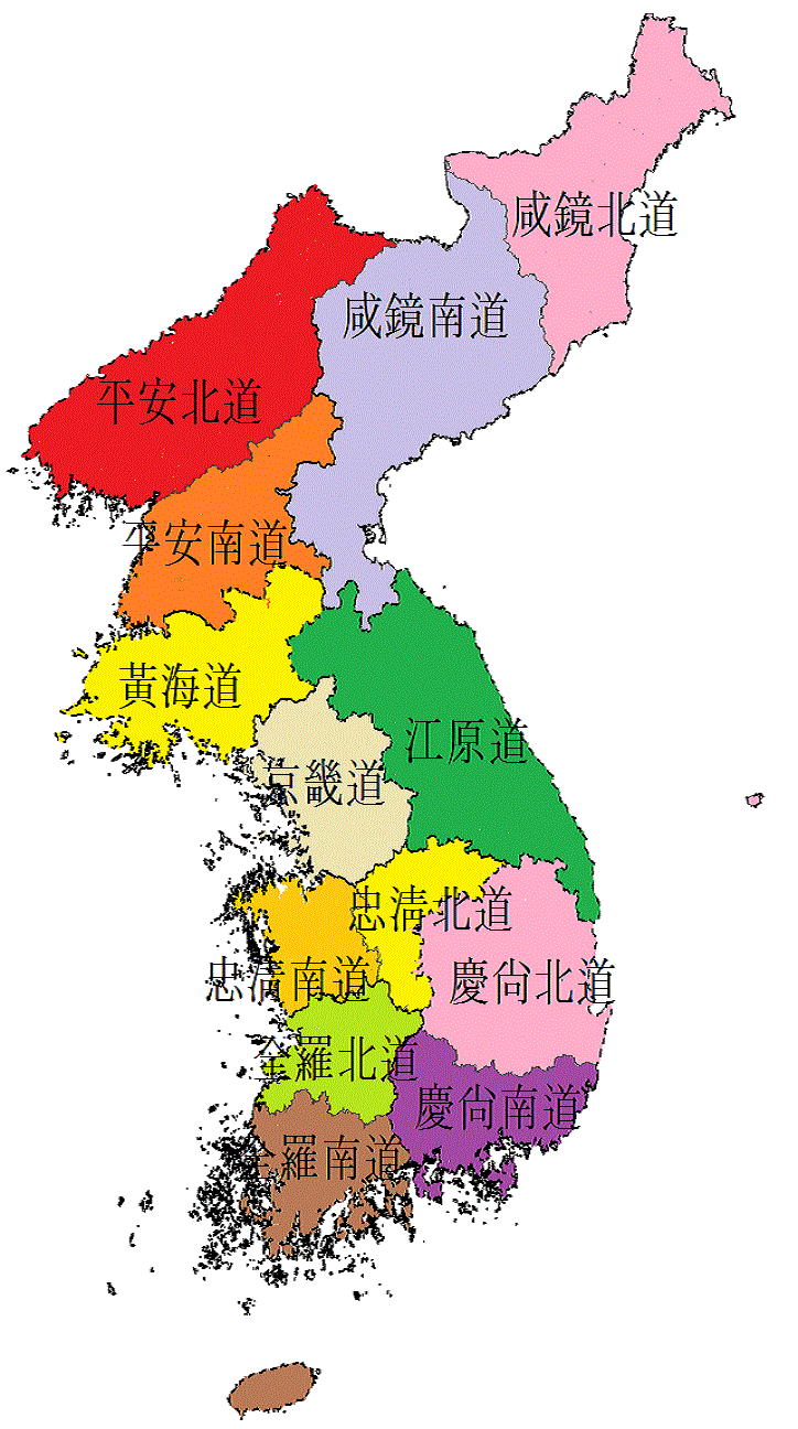 Thirteen Provinces of Korea since 1896